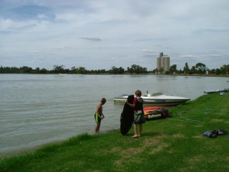 Water skiing at Lake Woorabinda, Hillston, New South Wales, Australia